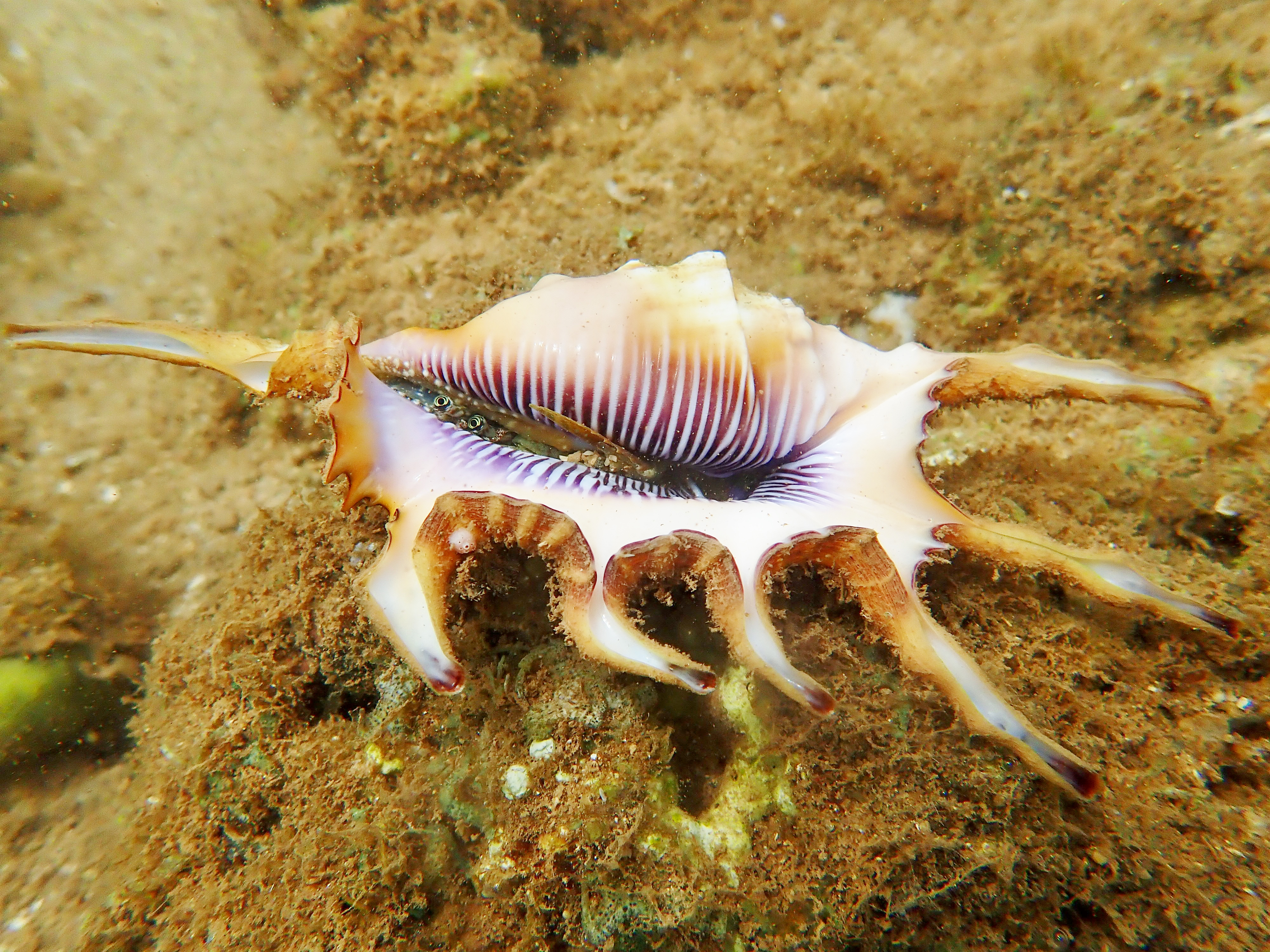 A live scorpion conch (Lambis scorpius) seen in Majicavo, Mayotte (south-west Indian ocean). The eyes and operculum are visible.